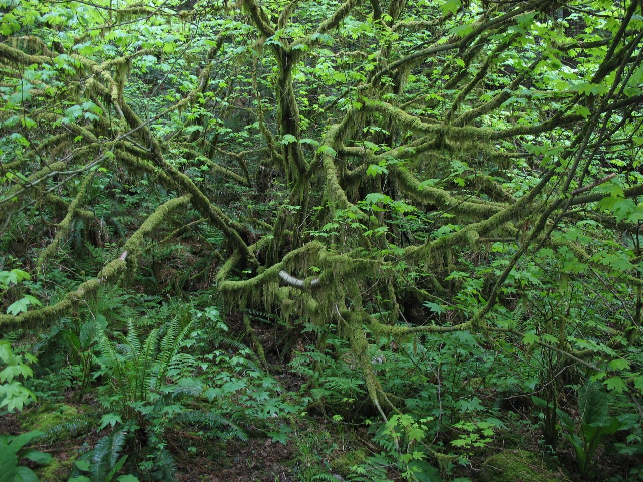 A bunch of it.